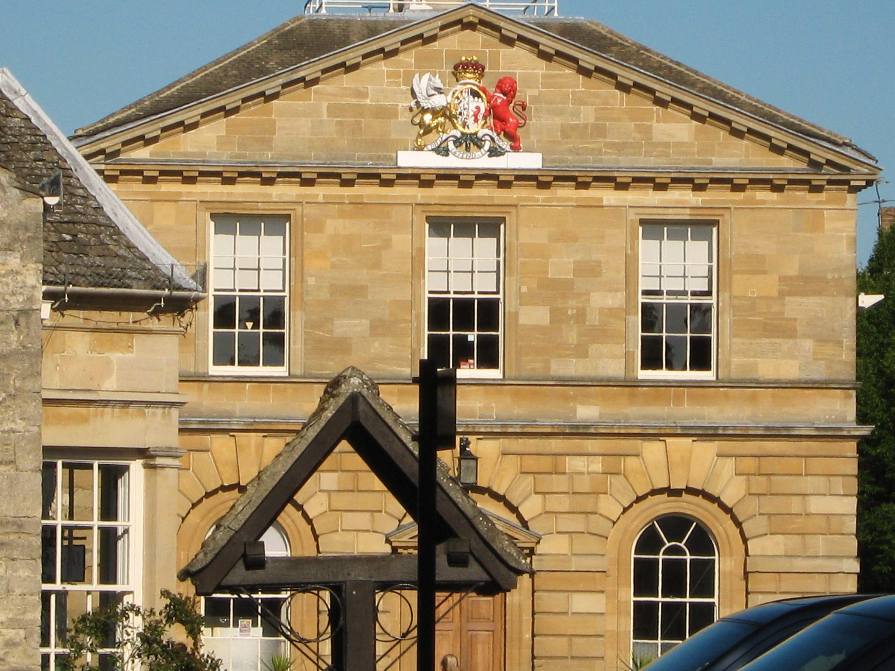 Part of the Town Hall, Woodstock, Oxfordshire, seen from the west